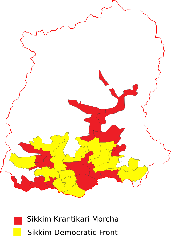 Election results for Sikkim 2019 assembly elections. One Sangha seat (for monks/nuns) is not shown.